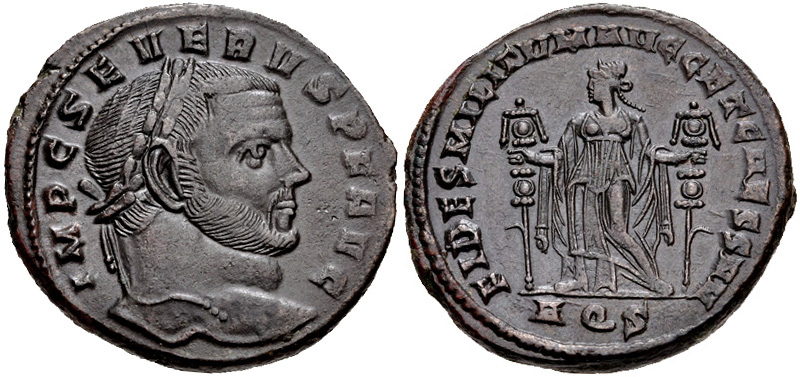 Severus II. AD 306-307. Æ Follis (27mm, 11.78 g, 6h). Aquileia mint, 2nd officina. IMP C SEVERUS PF AUG, Laureate head right FIDE MILITUM AUGG ET CAESS NN, Fides standing facing, head left, holding two standards; AQS. RIC VI 76b.